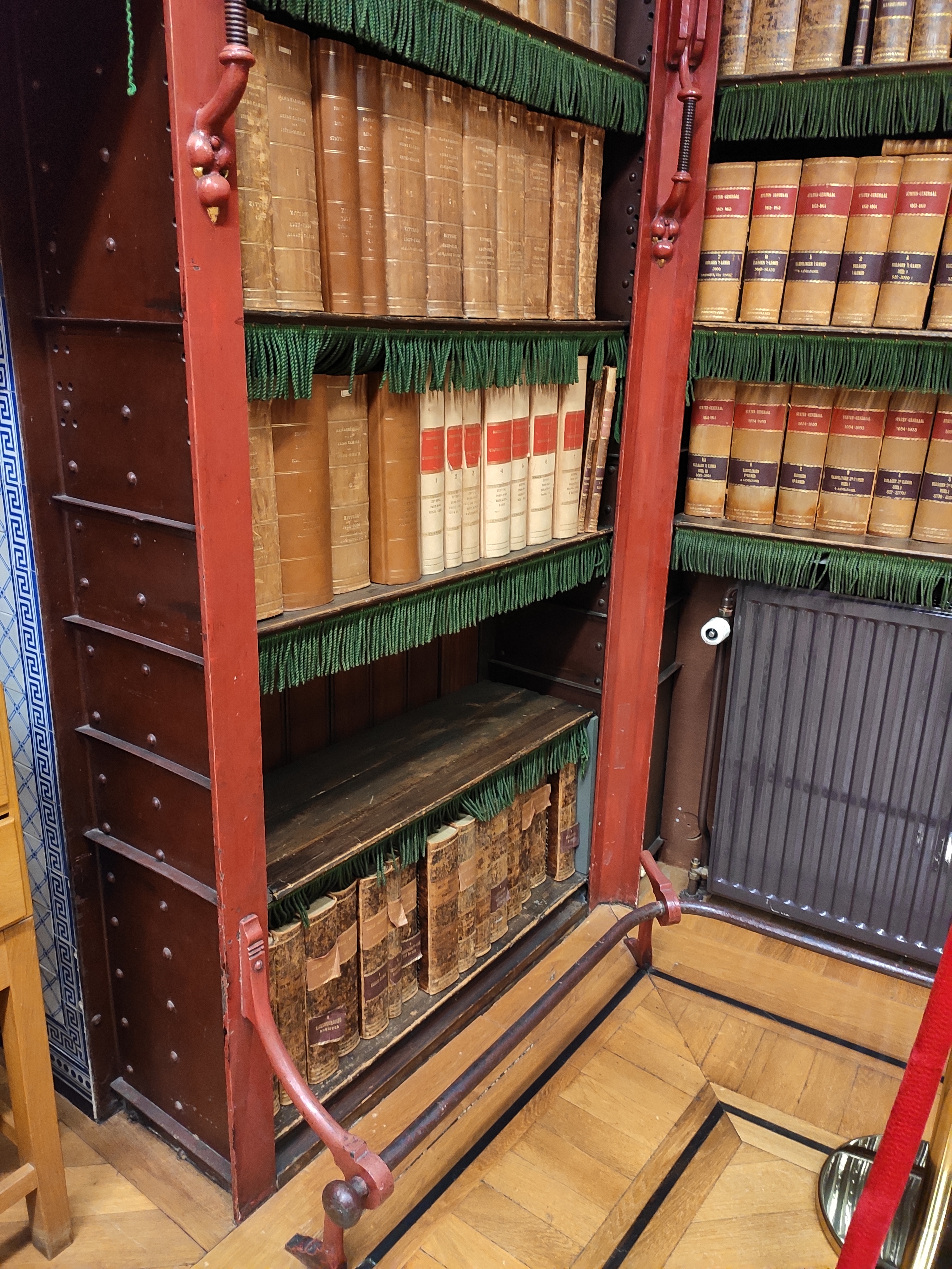 Library of the Dutch parliament